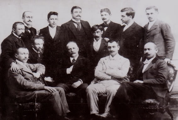 Serbian poetic circle.sitting: Svetozar Ćorović, Simo Matavulj, Aleksa Šantić and Janko Veselinović.2nd row: Slobodan Jovanović and Milorad Mitrović.3rd row: Mile Pavlović Krpa, Atanasije Šola, Radoje Domanović, Svetolik Jakšić, Ljubo Oborina, Risto Odavić and Jovan Skerlić.